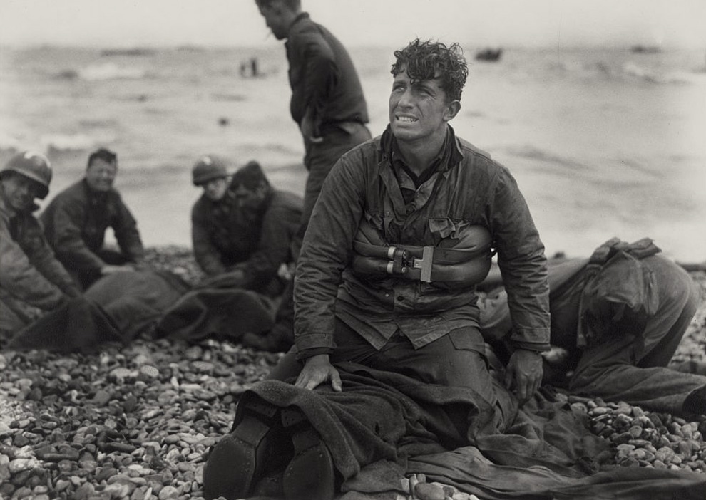 American soldiers recover the dead after D-Day